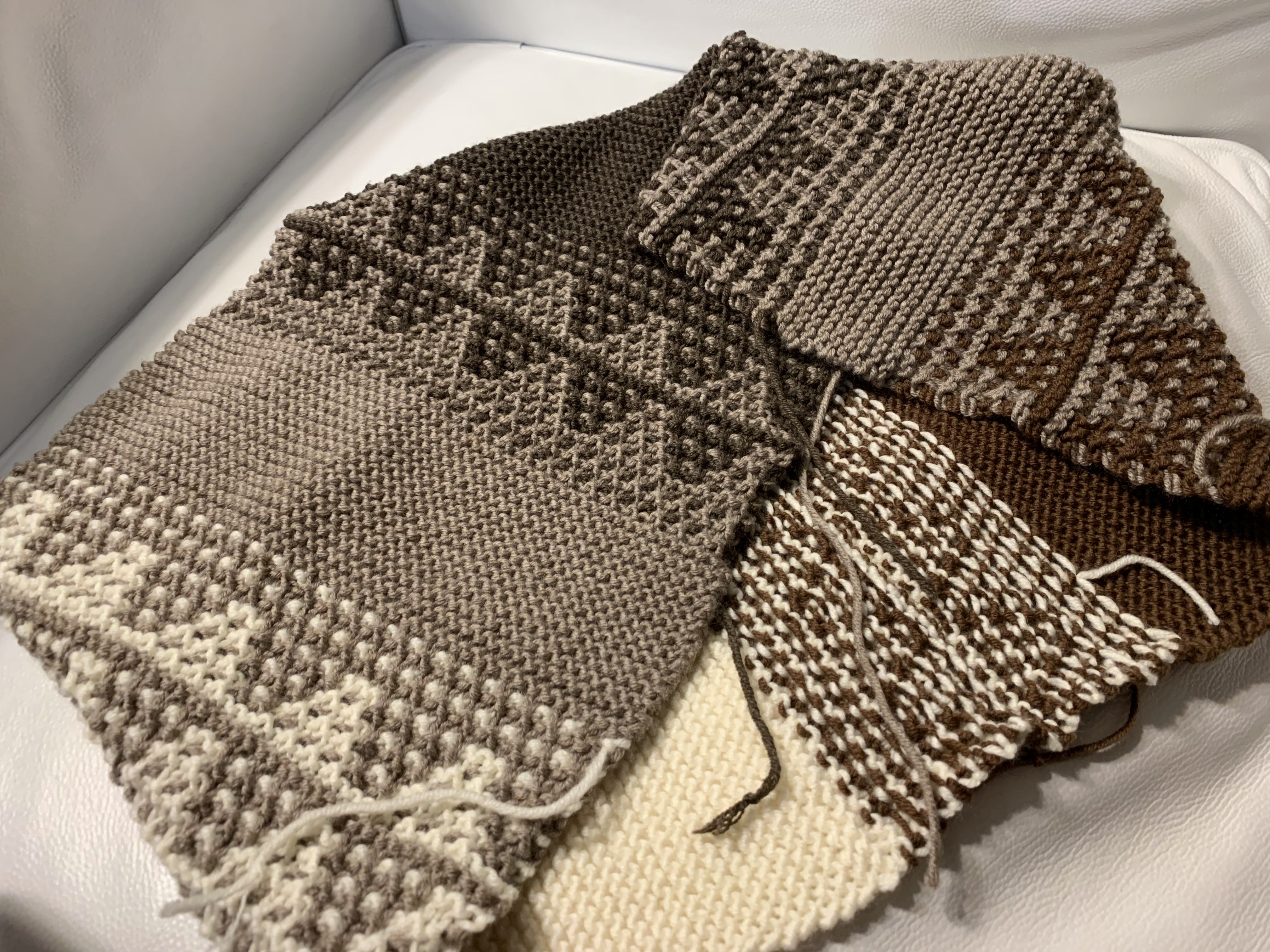 This pre-blocked cowl was knit using alternating panels of garter stitch and mosaic knitting. Loose ends have not been woven in yet.